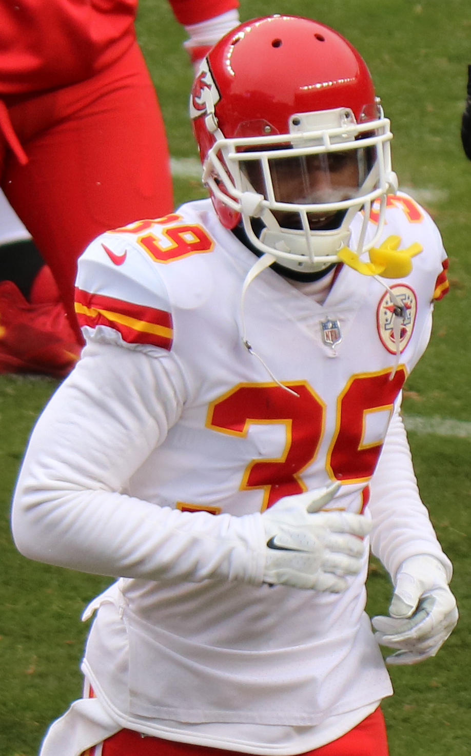 Terrance Mitchell, a National Football League player.